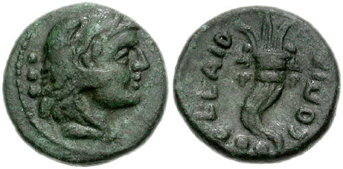 Lucania, Copia (Thurium). Circa 193 BC. Æ Quadrans (13mm, 2.20 g). Head of Herakles right, wearing lion's skin headdress; three pellets behind Cornucopiae; three pellets below.